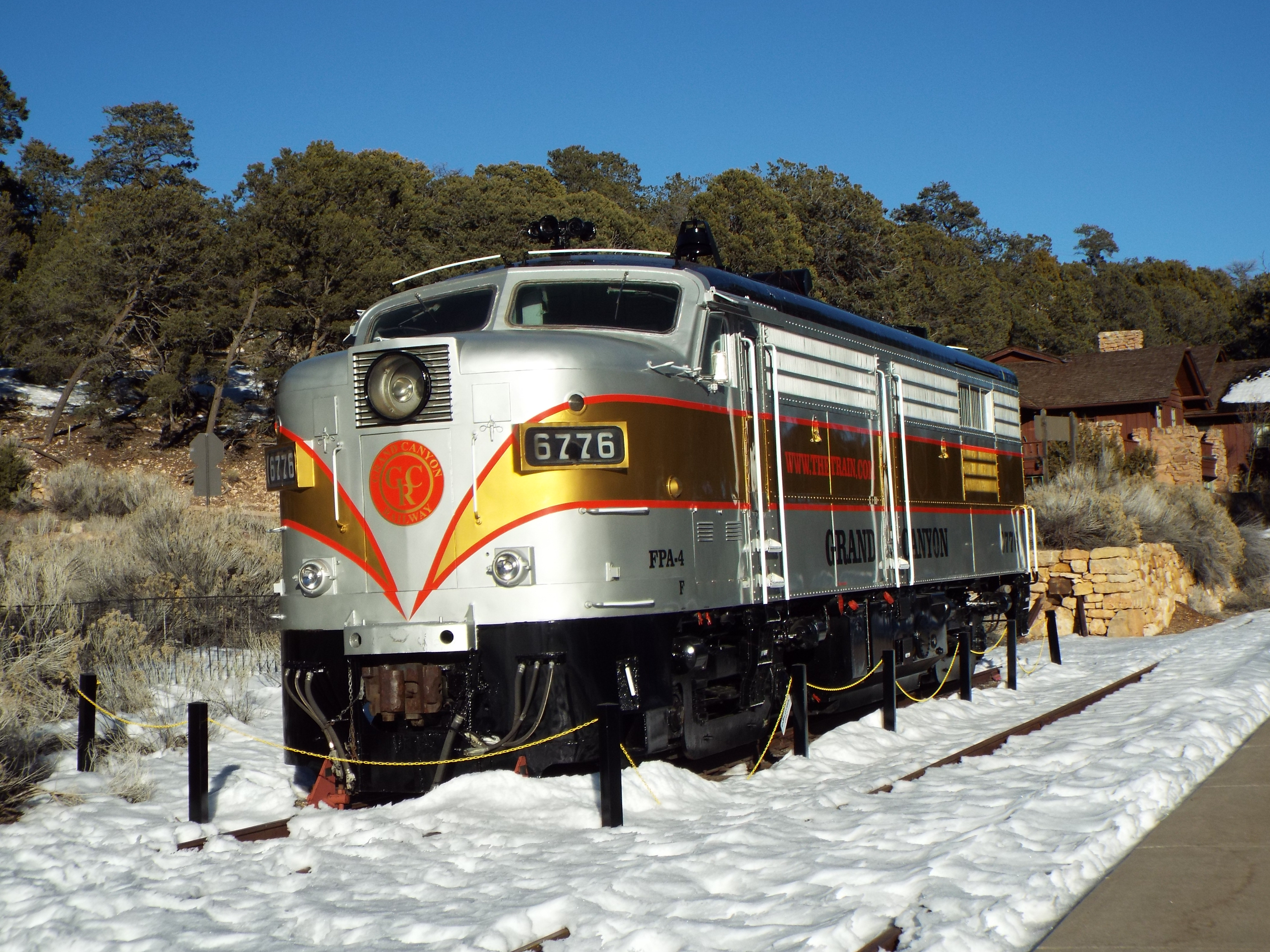 Diesel Engine No. 6776 was built in 1959 by the American Locomotive Company (ALCO) and is on display in the grounds of the Grand Canyon Railroad Station